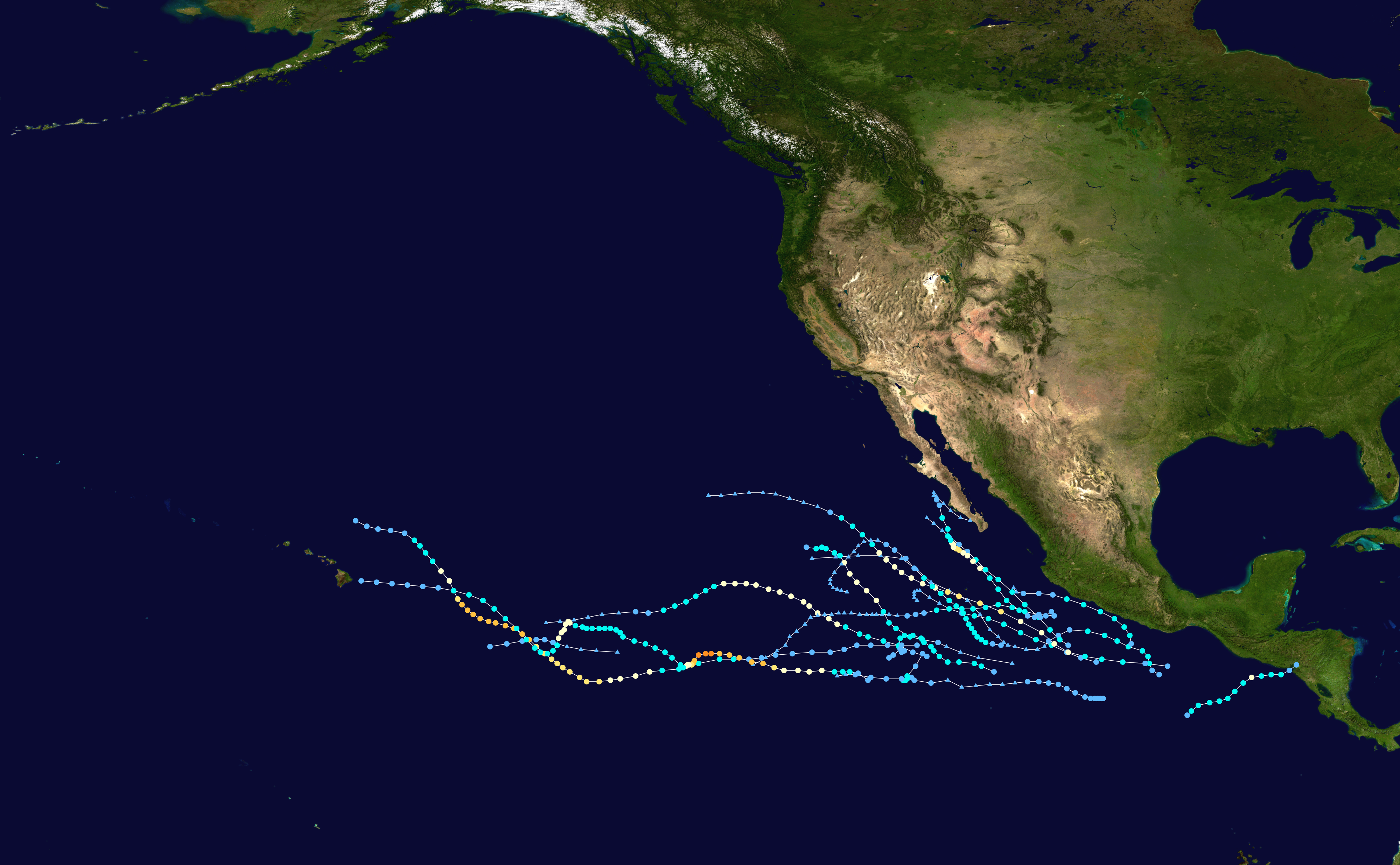 This map shows the tracks of all tropical cyclones in the 2005 Pacific hurricane season. The points show the location of each storm at 6-hour intervals. The colour represents the storm's maximum sustained wind speeds as classified in the Saffir-Simpson Hurricane Scale (see below), and the shape of the data points represent the type of the storm. Saffir–Simpson hurricane wind scale Tropical depression≤38 mph≤62 km/h Category 3111–129 mph178–208 km/h Tropical storm39–73 mph63–118 km/h Category 4130–156 mph209–251 km/h Category 174–95 mph119–153 km/h Category 5≥157 mph≥252 km/h Category 296–110 mph154–177 km/h Unknown Storm typeTropical cycloneSubtropical cycloneExtratropical cyclone / Remnant low / Tropical disturbance